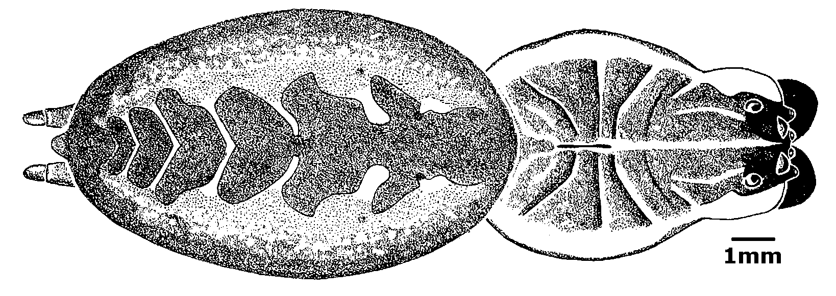 The spider: Sosippus californicus, female, from Brown's Canyon, Baboquivari Mtns., Pima Co., Arizona, 9 fun. 1952 (pattern and color same as specimens from Sabino Canyon, Santa Catalina Mtns., Pima Co., Arizona, 26 Jun. 1960).